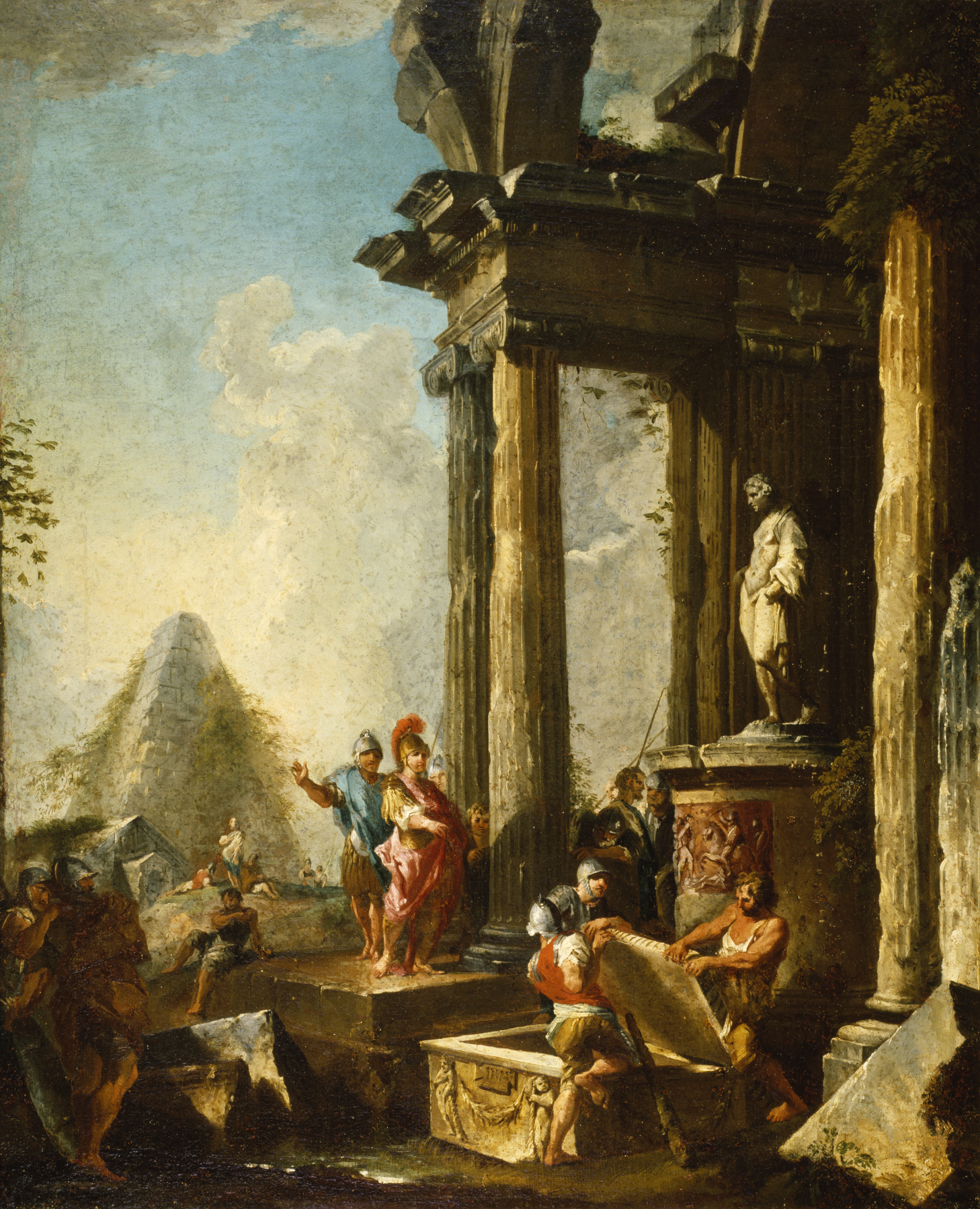 Alexander the Great (356-323 BC) is said to have ordered the tomb of Achilles (Greek hero in the Trojan War) to be opened so that he could pay homage to his legendary predecessor. Achilles's tomb was in what is today Turkey; to suggest an ancient setting outside the Roman world, Panini introduced an Egyptian pyramid in the background. The painting and its companion, "Alexander the Great Cutting the Gordian Knot" (Walters 37.516), represent Panini's fantasy of the grandeur of the ancient world.